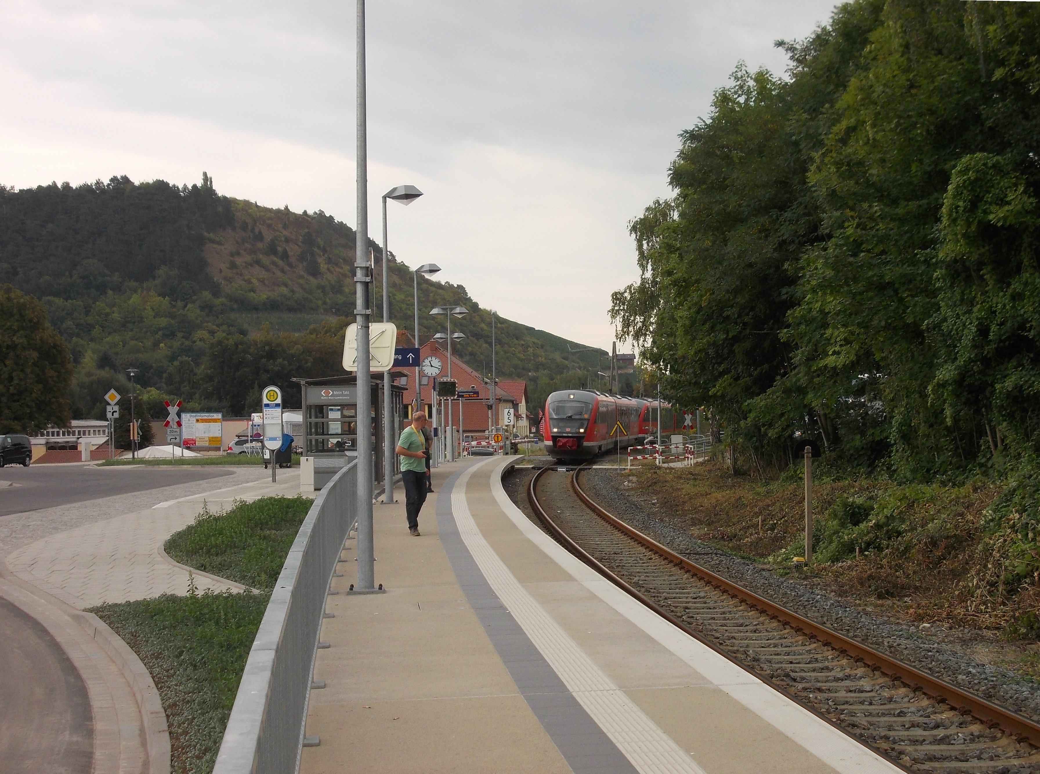 New train station in Freyburg/Unstrut (district: Burgenlandkreis, Saxony-Anhalt)